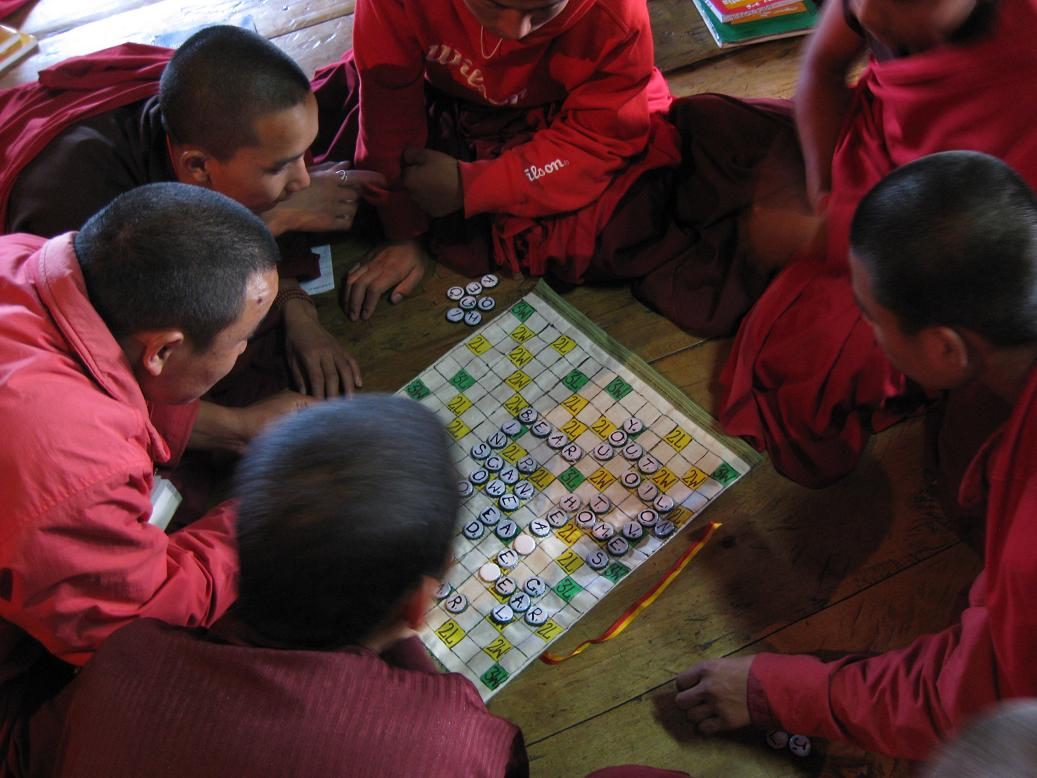 Buddhist monks playing homemade scrabble at the Nalanda Buddhist Institute (NBI,) — in Punakha District, central Bhutan. Taken in the Upper Shrine room, in 2008.